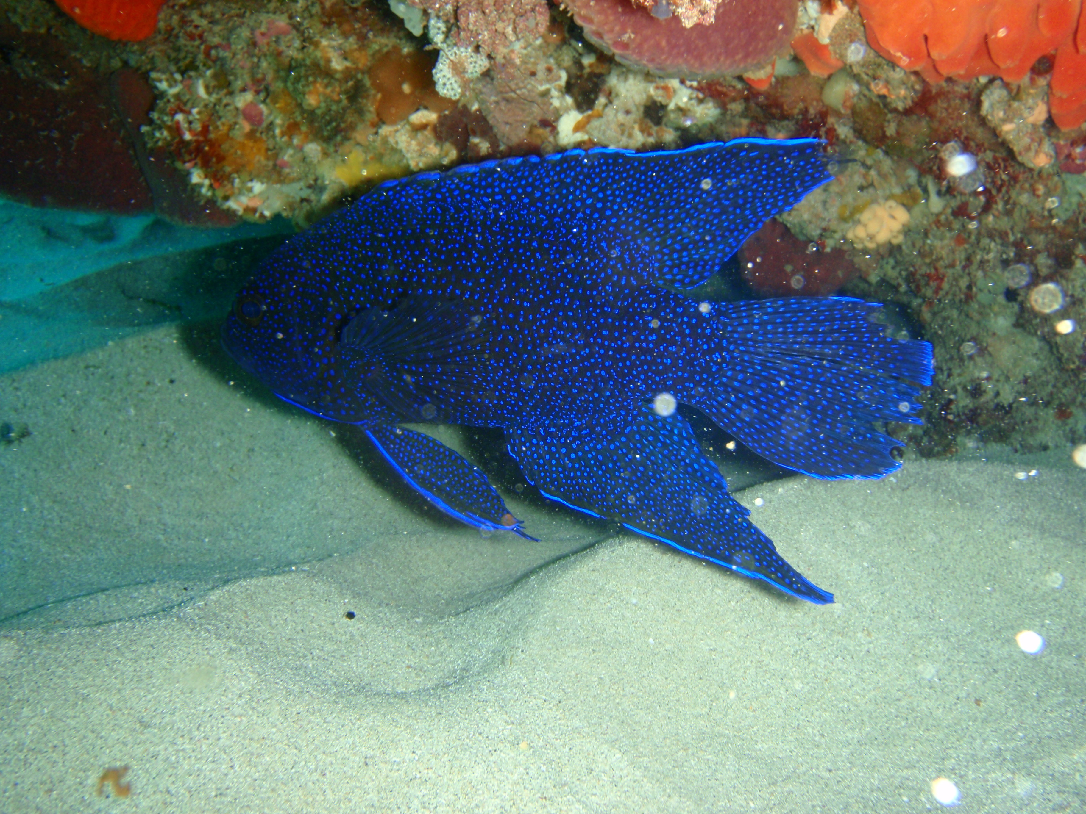 Western blue devil Paraplesiops meleagris at Kingston Reef, Rottnest Island